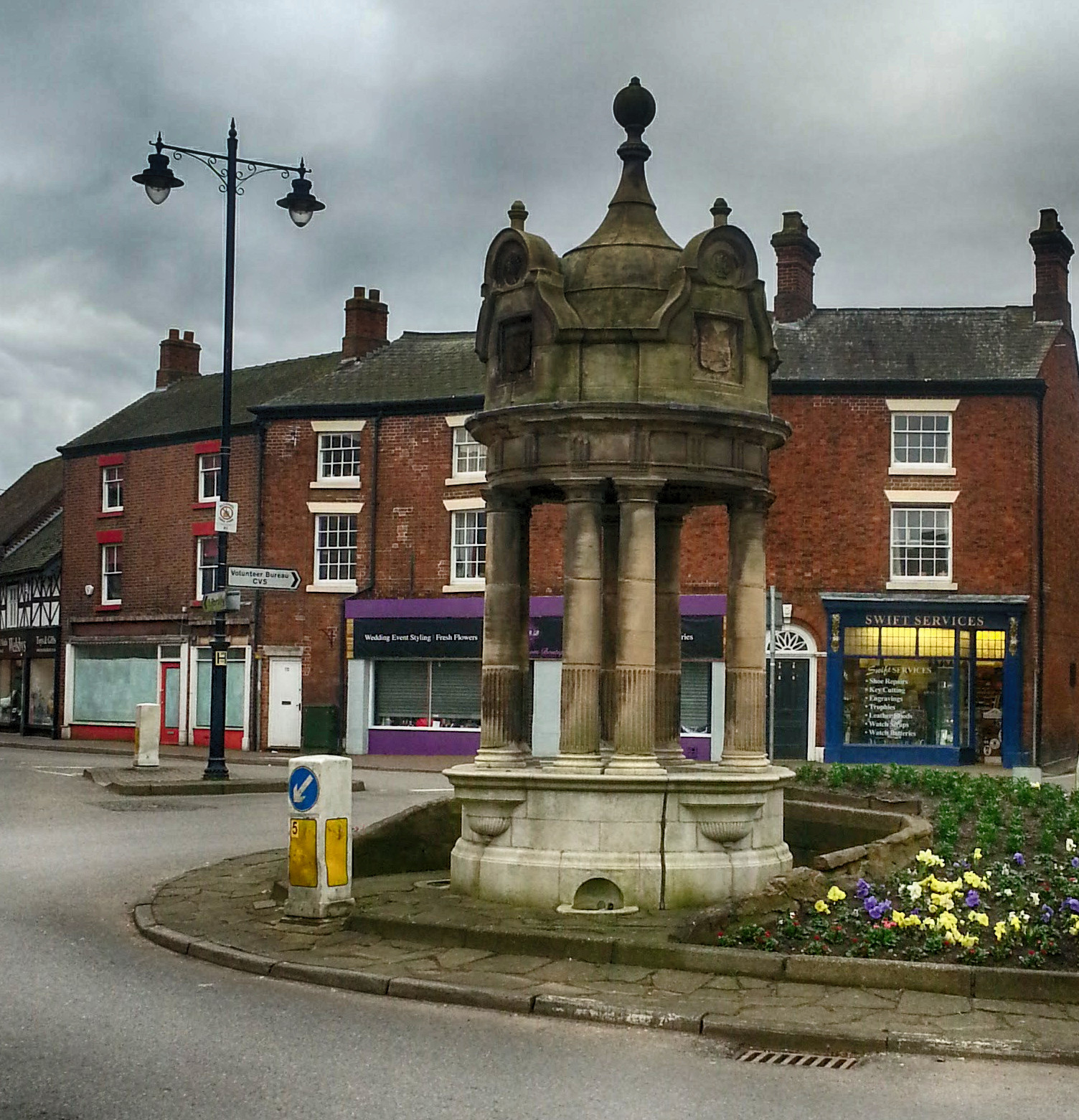 Grade II Listed Drinking fountain designed by Thomas Bower (1889). See also: "Listed buildings in Sandbach"